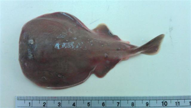 Finless sleeper ray (Temera hardwickii) at Phuket Fishing Port, Thailand